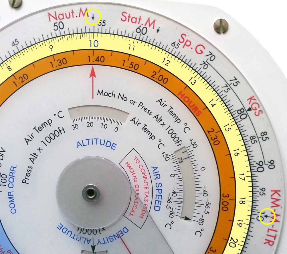 nm, sm, km conversions on the back of a CRP-5 flight computer